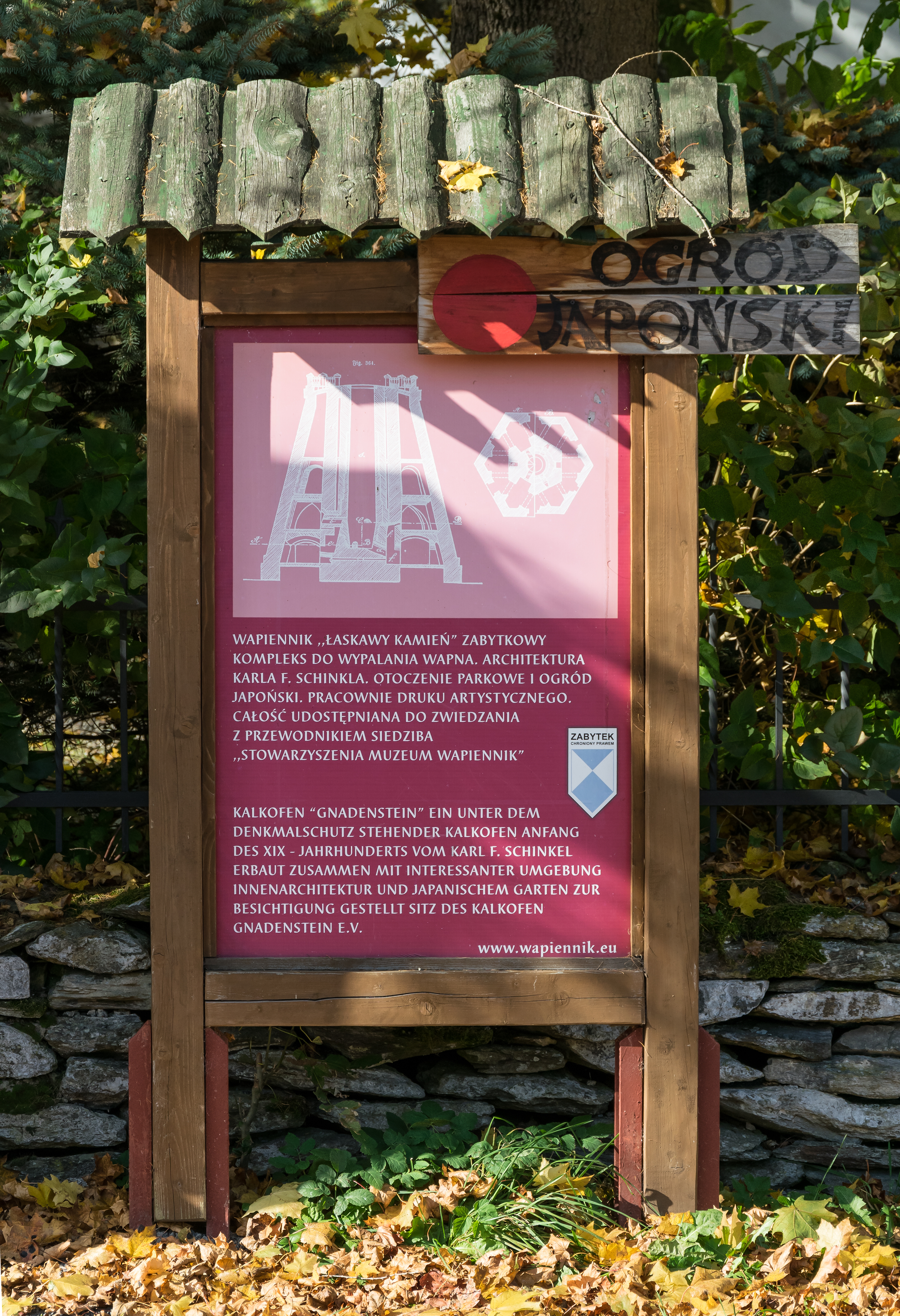 Lime kiln in Stara Morawa